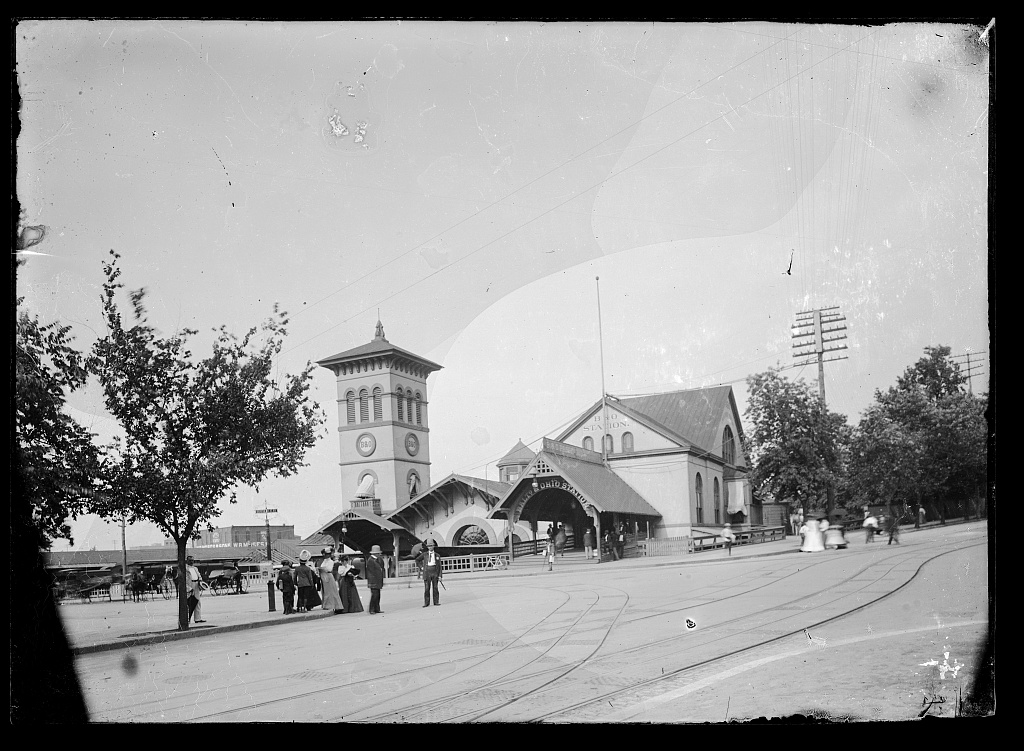 A view of the New Jersey Avenue Station, Washington, D.C. of the Baltimore and Ohio Railroad. West entrance, C Street & New Jersey Ave., N.W.